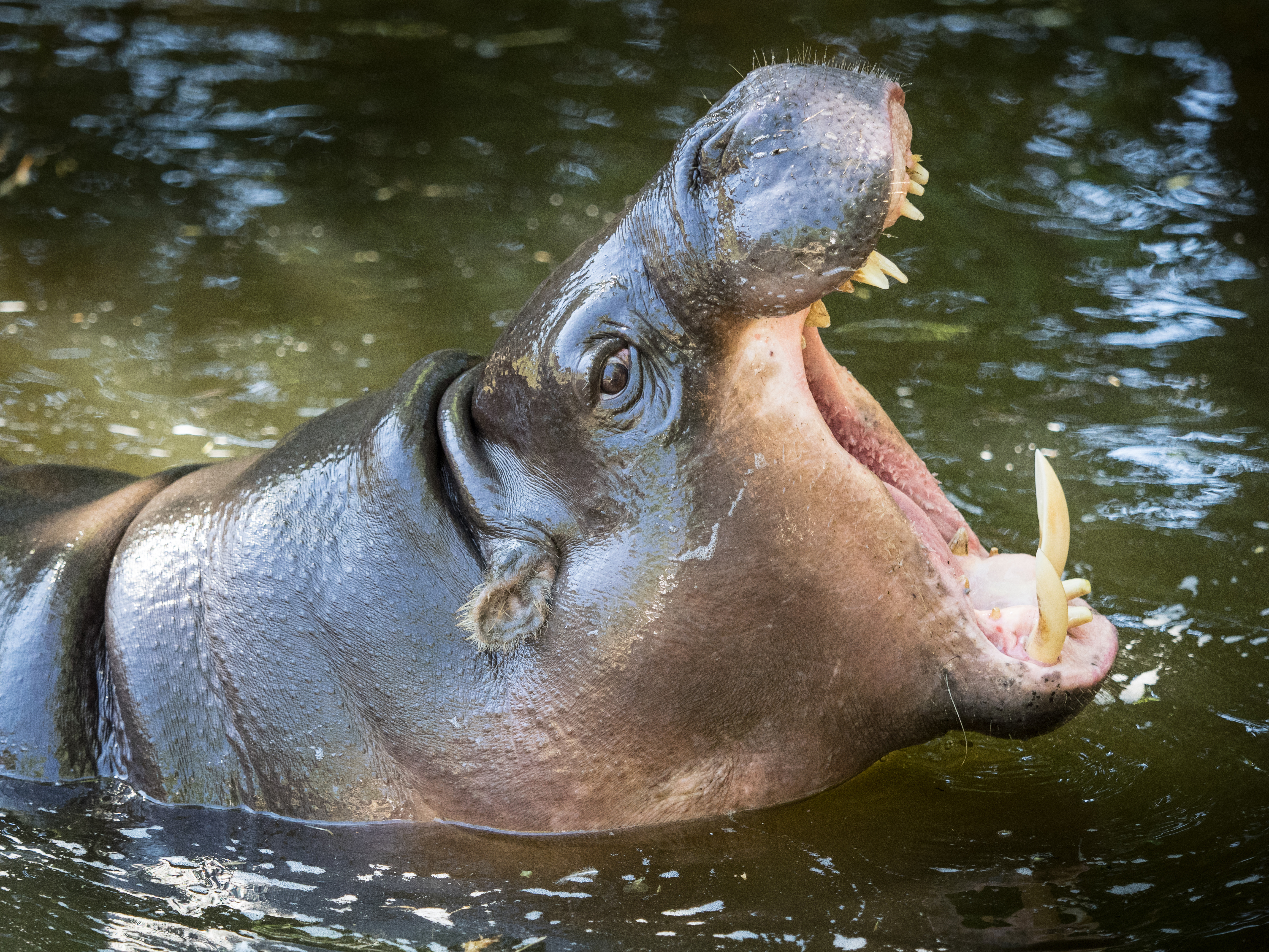 Pygmy hippopotamus (Hexaprotodon liberiensis) at Lagos Zoo, Portugal.